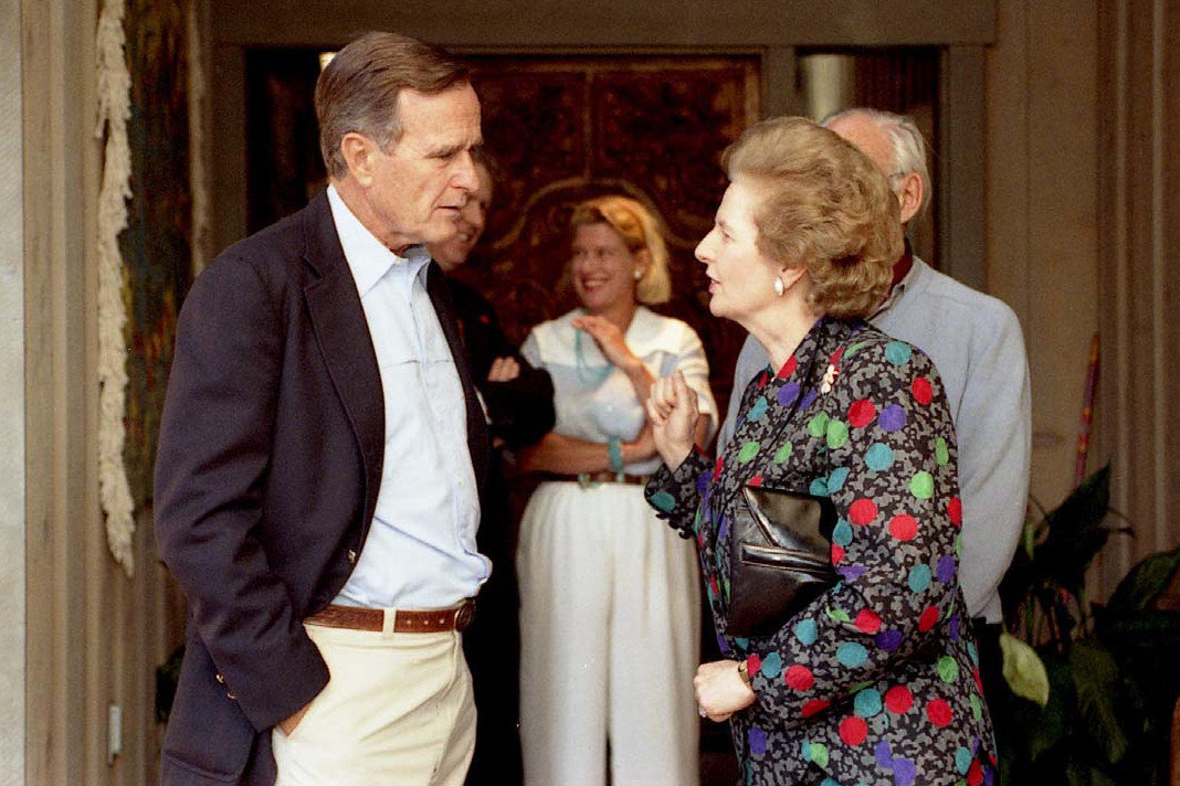 President Bush and British Prime Minister Margaret Thatcher visit at a reception given by Ambassador and Mrs. Henry Catto at Catto Ranch, Aspen, CO